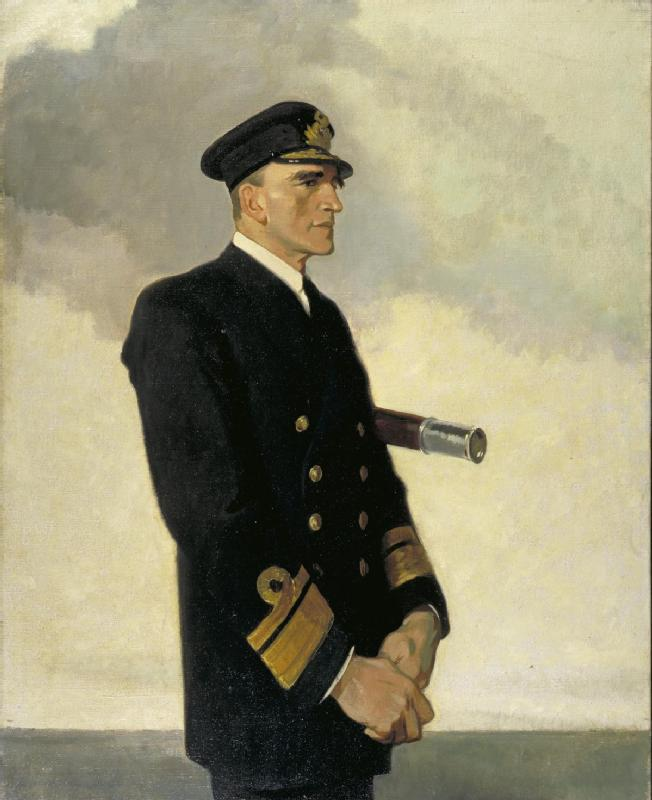 Rear-admiral Sir Reginald Y Tyrwhitt, Kcb, Dso, 1918 image: A three quarter-length portrait of Tyrwhitt in full uniform. He stands with his hands held in front and a telescope under his arm, with the horizon in the background.